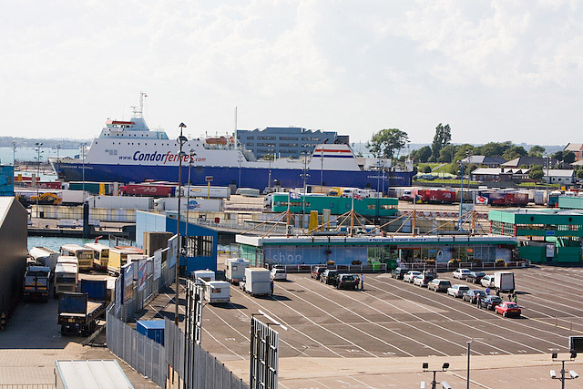 Vehicles lining up to embark at the continental ferry port, Portsmouth Seen from top of nearby multi-storey car park.